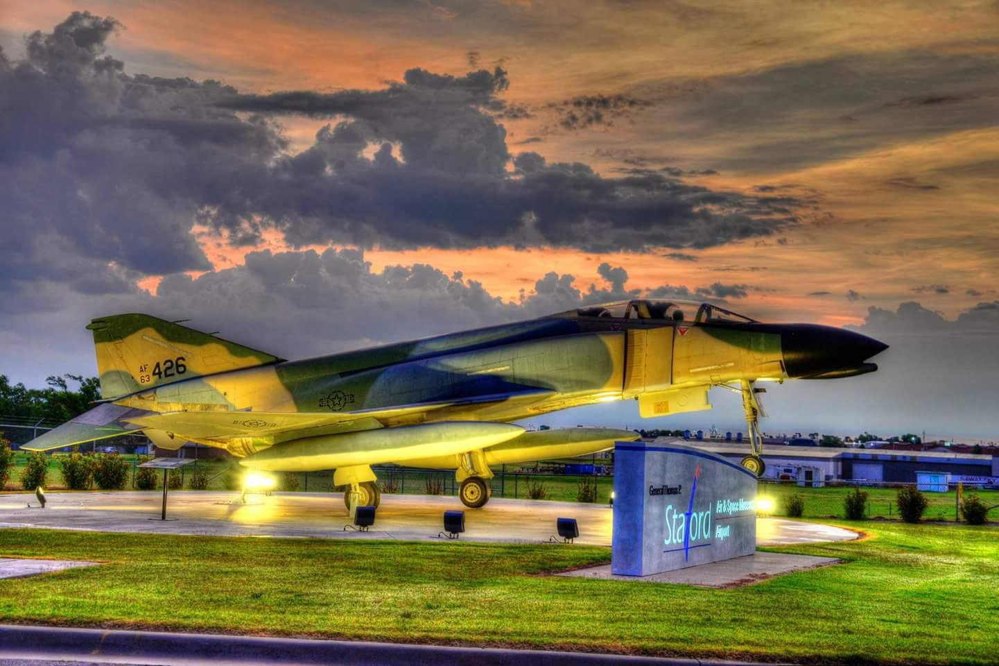 F4 Phantom at the entrance of the museum